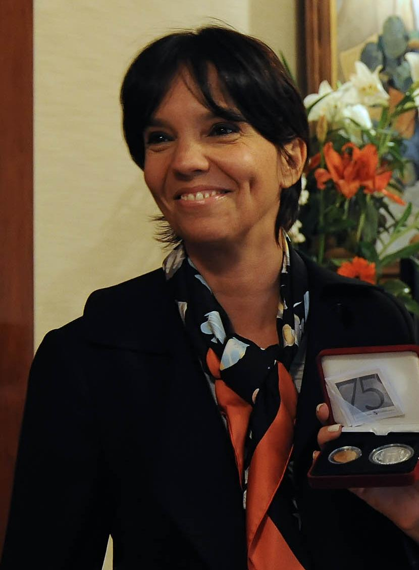 Mercedes Marco del Pont in celebrating the 75th anniversary of Central Bank